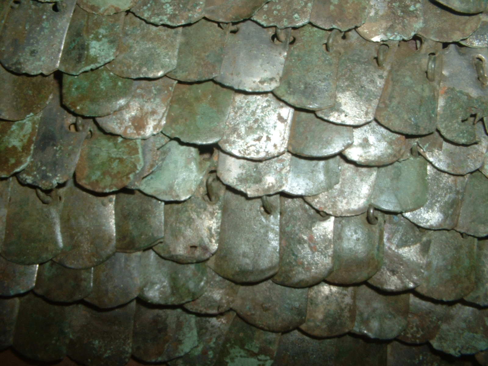 Roman scale armour, detail of a fragment. Each scale has six holes and the scales are linked in rows. Photograph was taken in the Somerset County Museum in Taunton on 29-Oct-05.